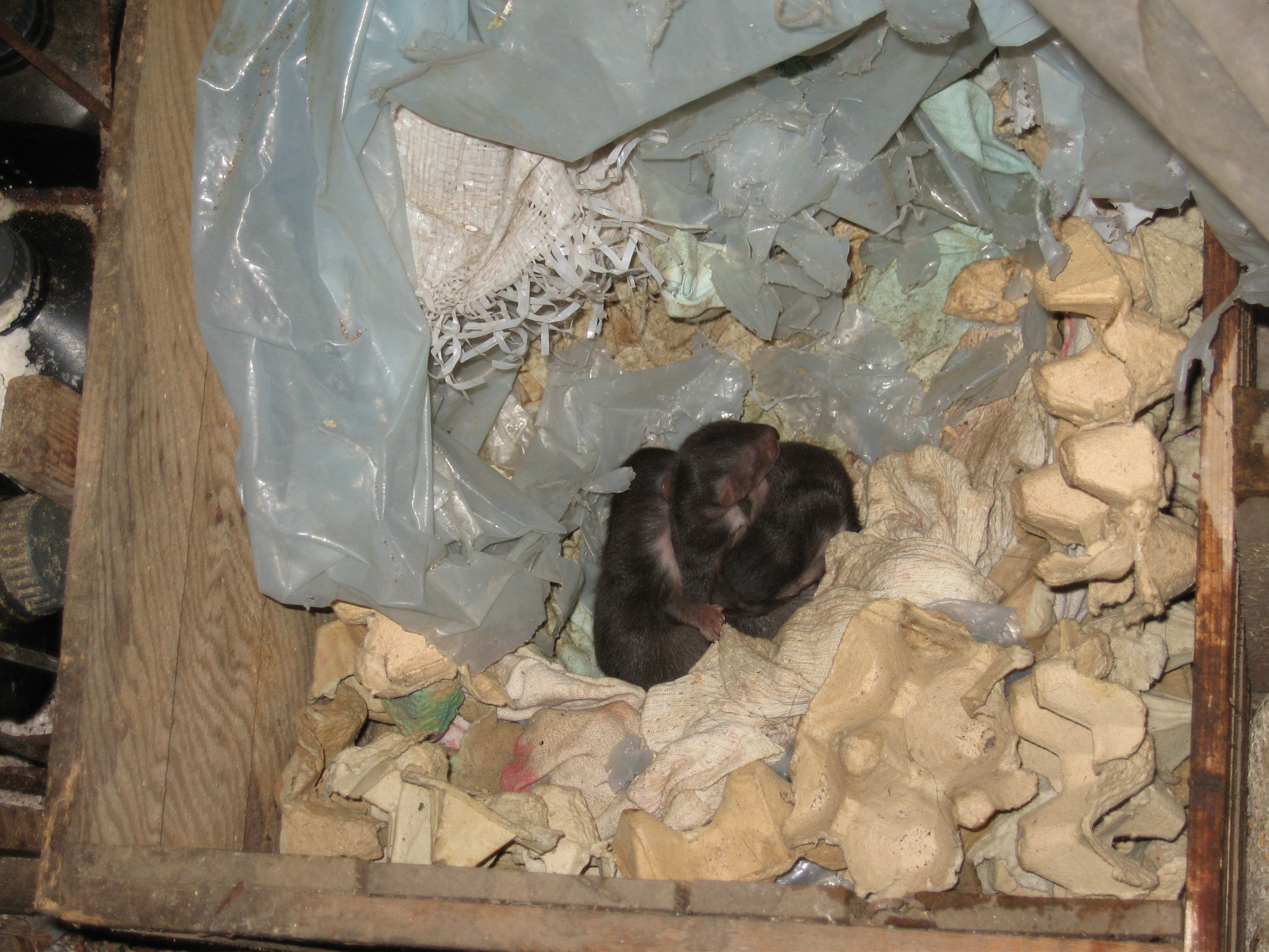 Beech Marten (Martes foina) - nest and litter of three found in а farm outbuilding in the village of Orlintzi, Bulgaria